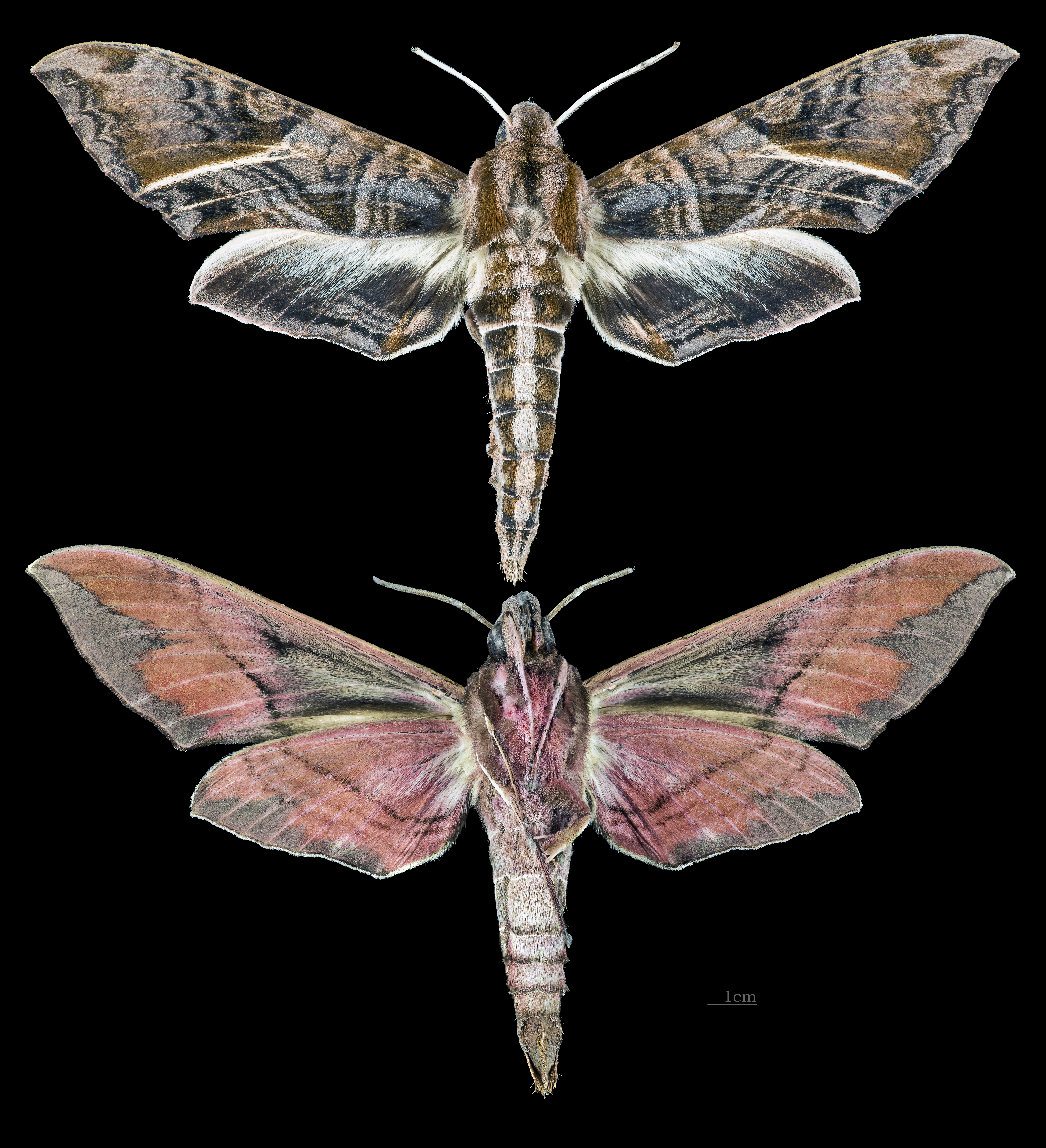 Eumorpha neuburgeri - Two views of same specimen Collection of the Mathematician Laurent Schwartz